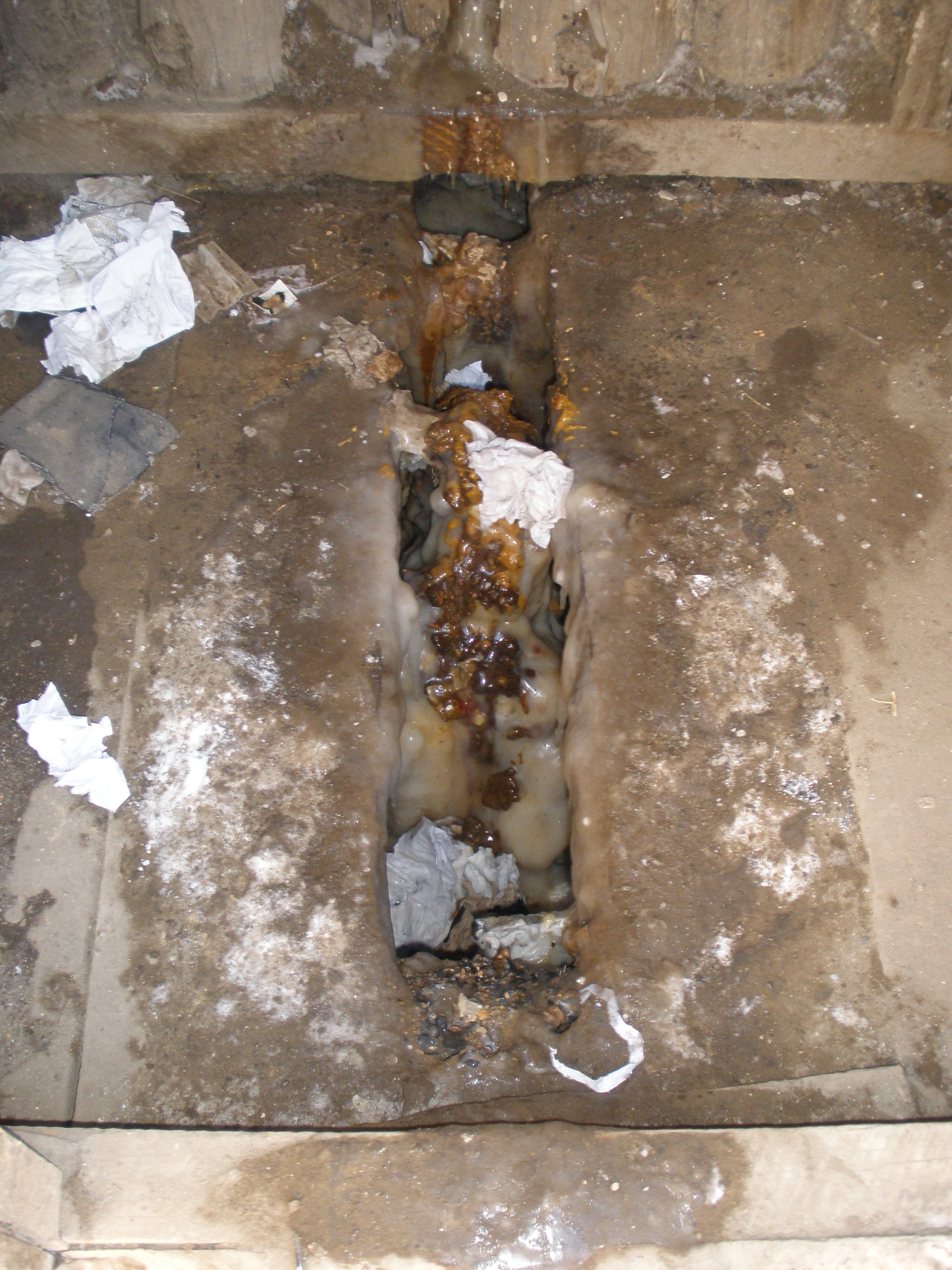 Mongolia - Examples of dirty pit latrines